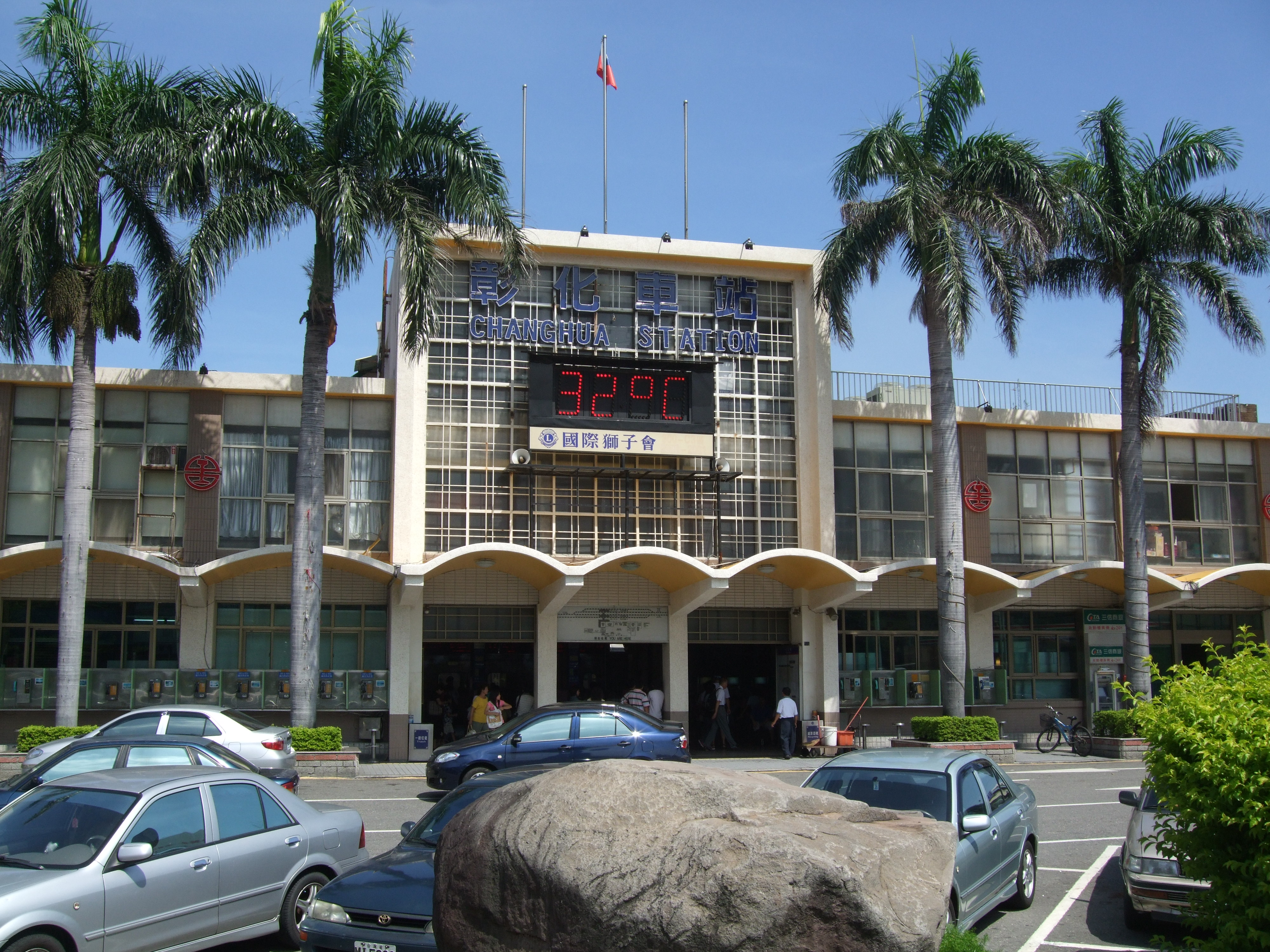 A picture of the Taiwan Railways Administration station in Changhua City, Taiwan.